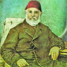 A colored portrait of Ahmad Faris Shidyaq